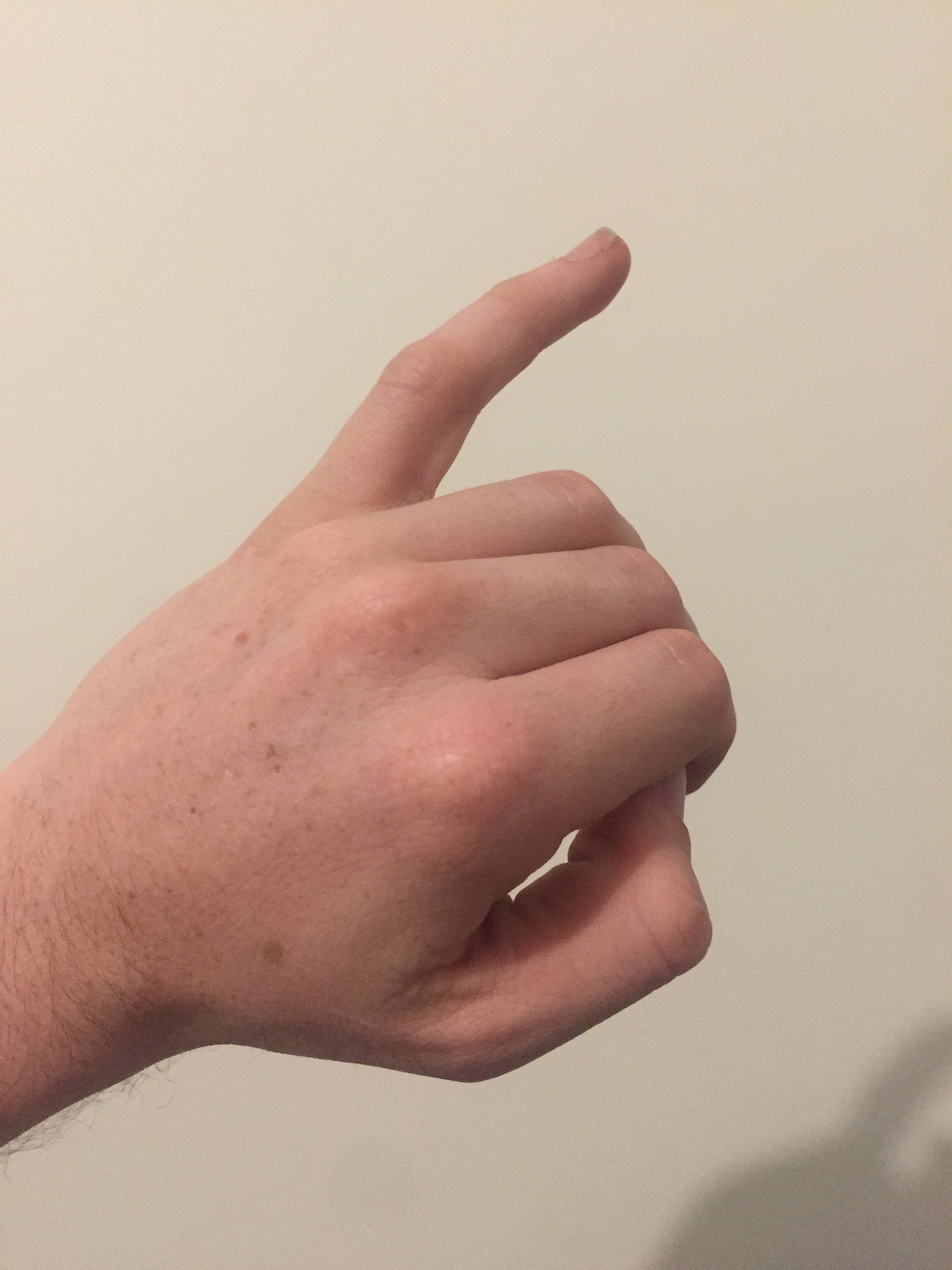 Human Pinky